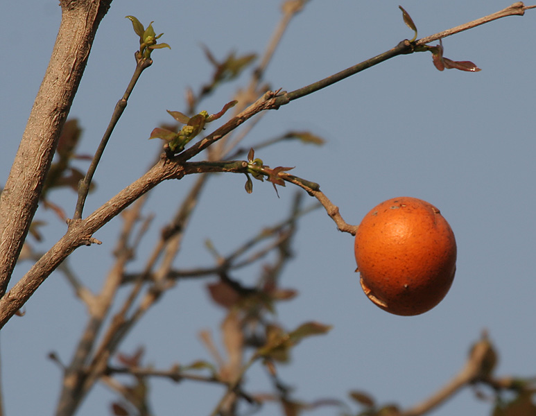 Poison Nut, Semen strychnos, Quaker Buttons, Strychnine tree or Nux vomica Strychnos nux-vomica in Kinnerasani Wildlife Sanctuary, Andhra Pradesh, India.